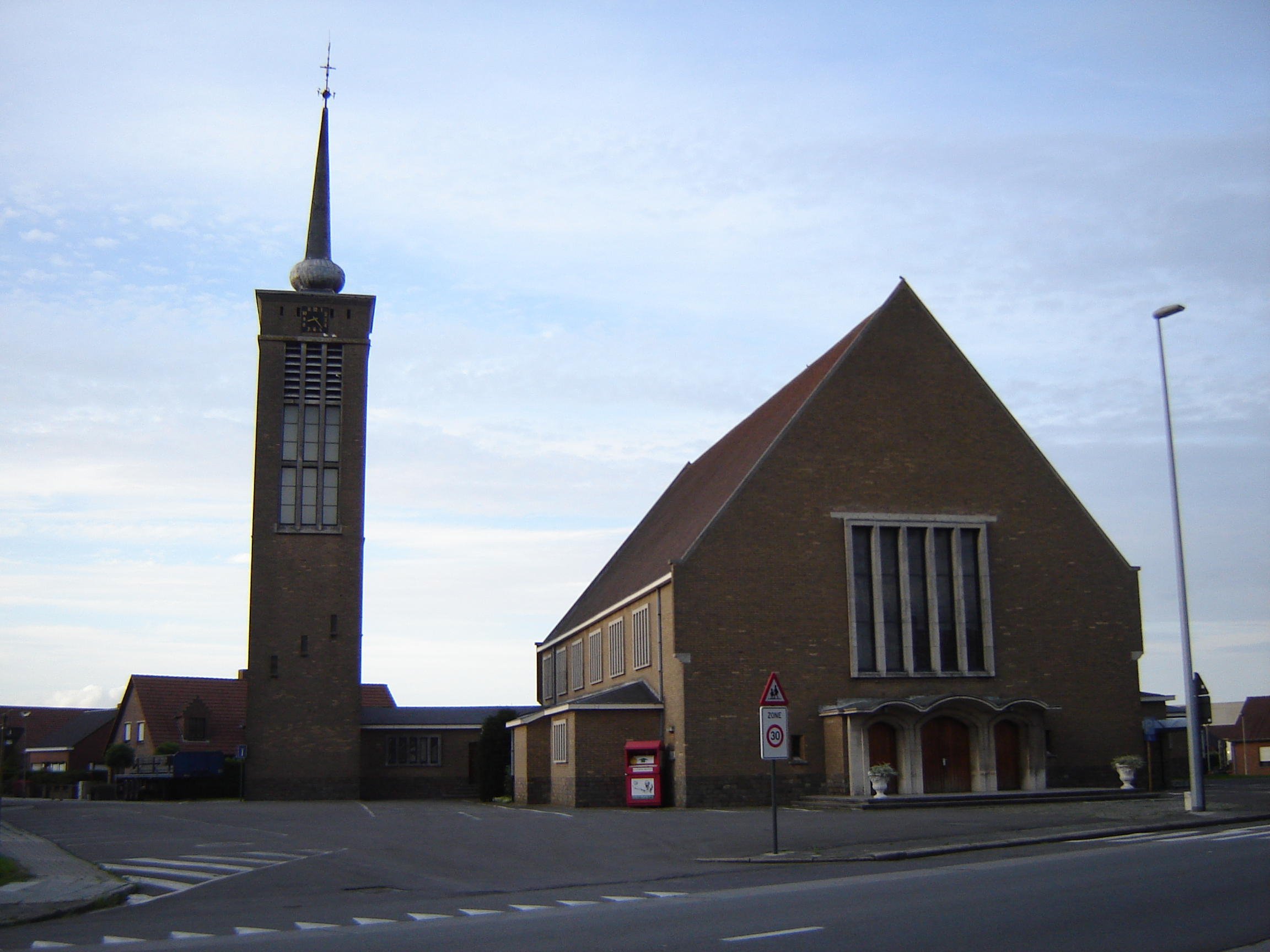 Church of Saint Joseph in Hille. Hille, Zwevezele, Wingene, West Flanders, Belgium